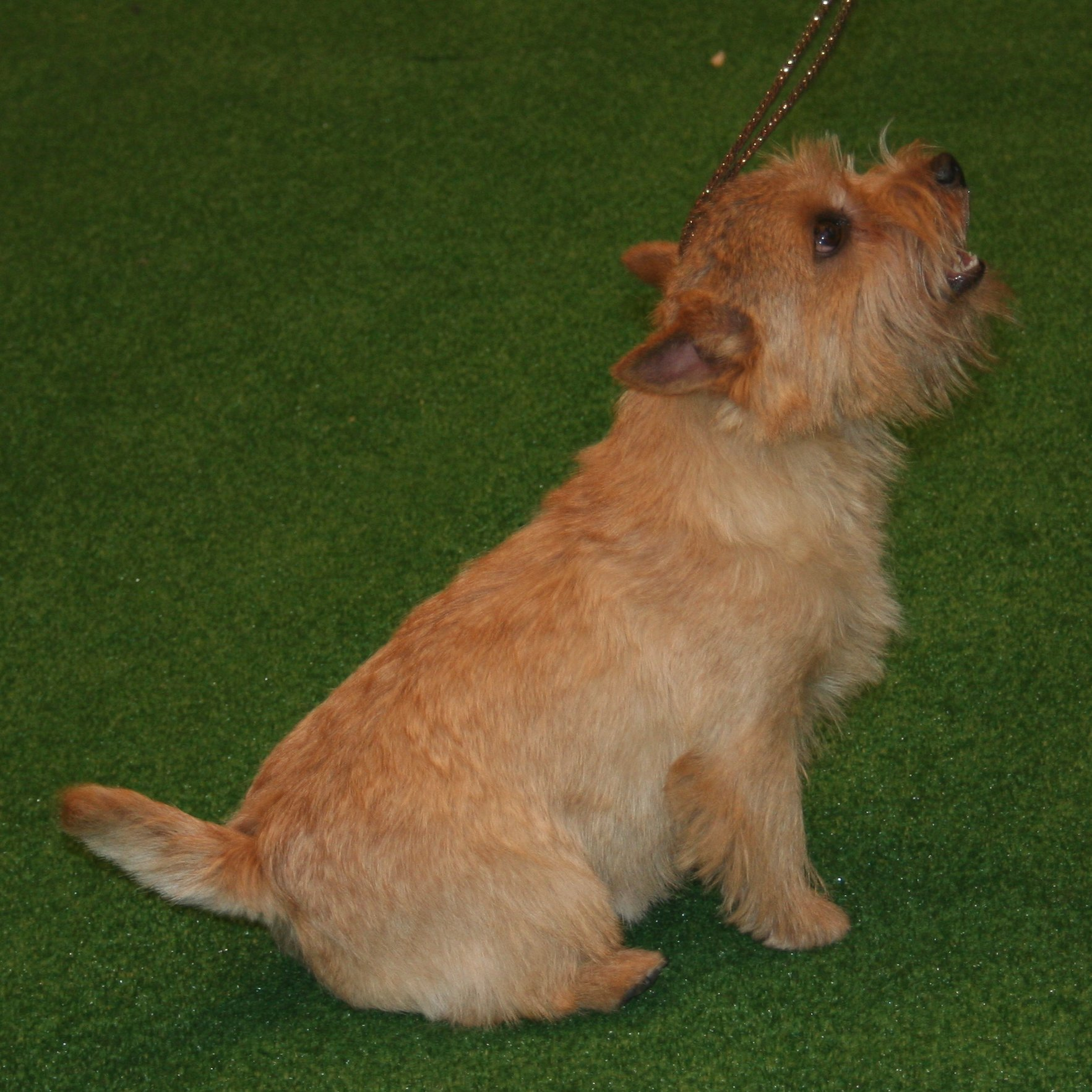 Norwich terrier during dogs show in Katowice, Poland